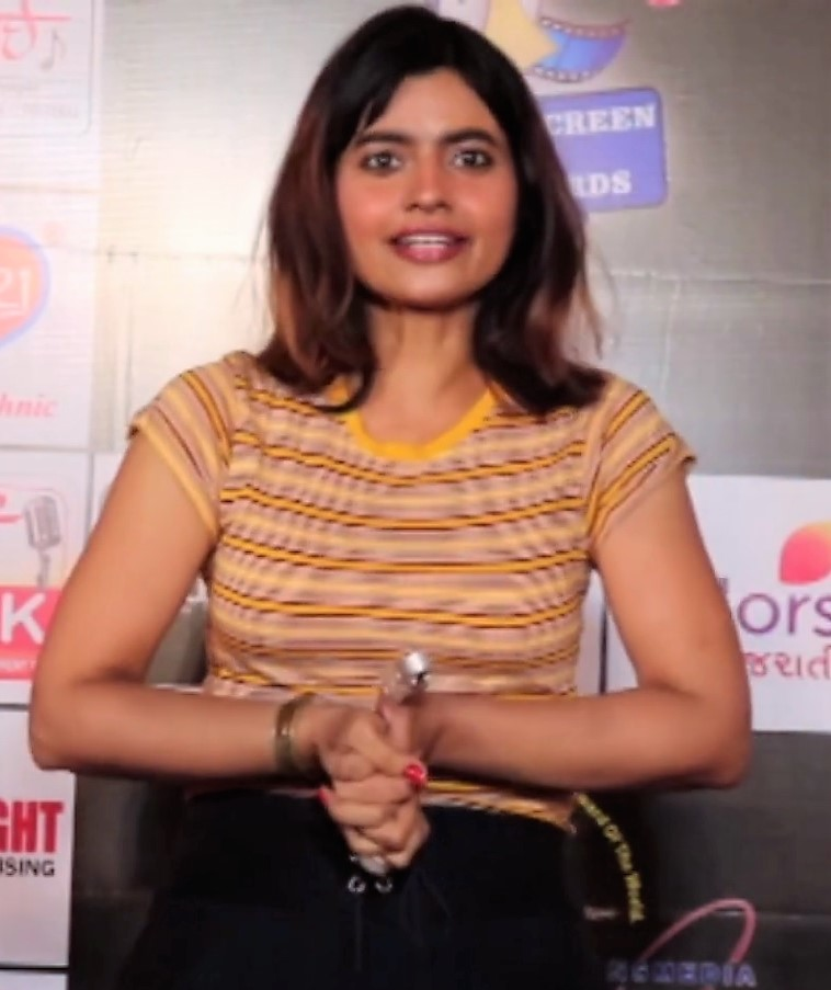 Leslie Tripathy Attend 19Th Transmedia Gujarati Film And Tv Award 2020 BollywoodKiBaten #BollywoodNews #Entertanment Bollywood Ki Baten